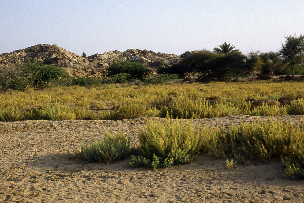 Bienertia cycloptera s.l. (probably Bienertia sinuspersici) - Pakistan, southern Baluchistan, Makran, near Jiwani